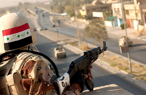 An Iraqi soldier from 4th Battalion, 1st Brigade, 6th Iraqi Army Division stationed at Camp Hawk, provides cover as other Iraqi Army soldiers search a furniture store in Ameriyah, Iraq, July 21, 2005. Intelligence was gathered earlier from a local Iraqi citizen on suspicious activity occurring in and around the store. U.S. soldiers assigned to the 3rd Battalion, 156th Infantry Regiment provided the outer cordon while Iraqi troops conducted the search. The Iraqi soldiers were trained by the military transition team from 3rd Battalion, 156th Infantry Regiment, 256th Brigade Combat Team, 3rd Infantry Division.